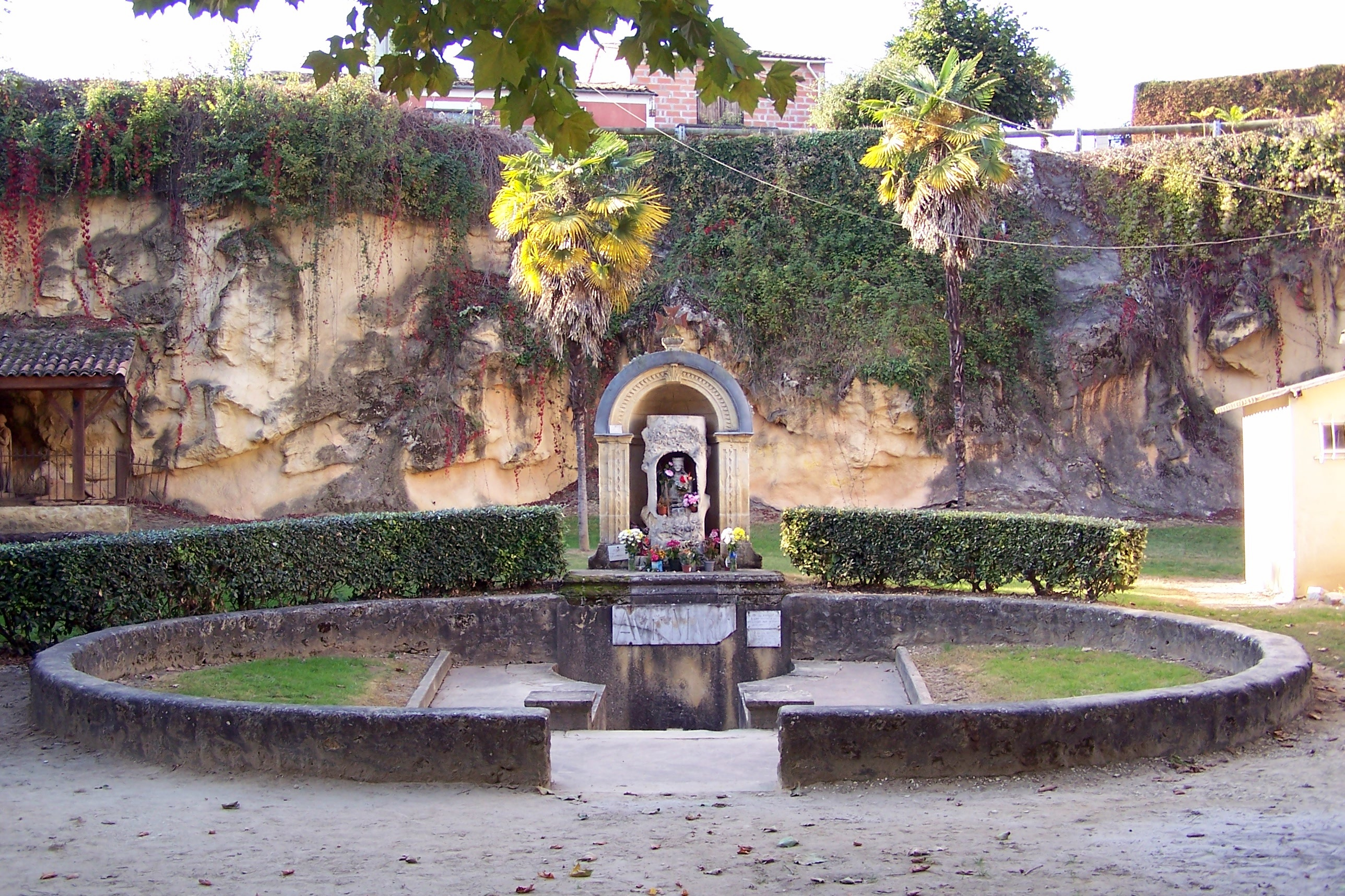 Votive fountain of Verdelais (Gironde, France)